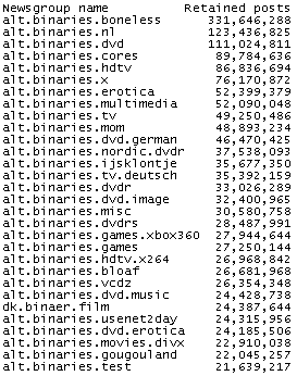 This is an example of the incredibly huge post retention capabilities of a commercial usenet provider. This is a listing of the top 30 newgroups on Giganews, sampled on March 3rd, 2008, showing the number of retrievable posts in each group. The weirdly-named alt.binaries.boneless group seems to be a catch-all for all sorts of media, from entire DVDs to individual mp3 files.